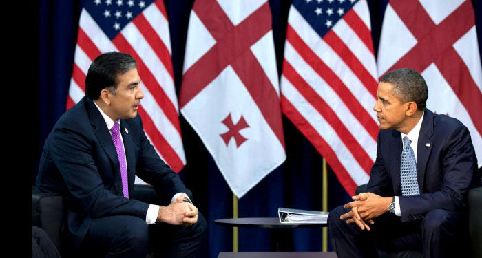 President Barack Obama holds a bilateral meeting with Georgian President Mikheil Saakashvili in Lisbon, Portugal, Nov. 19, 2010